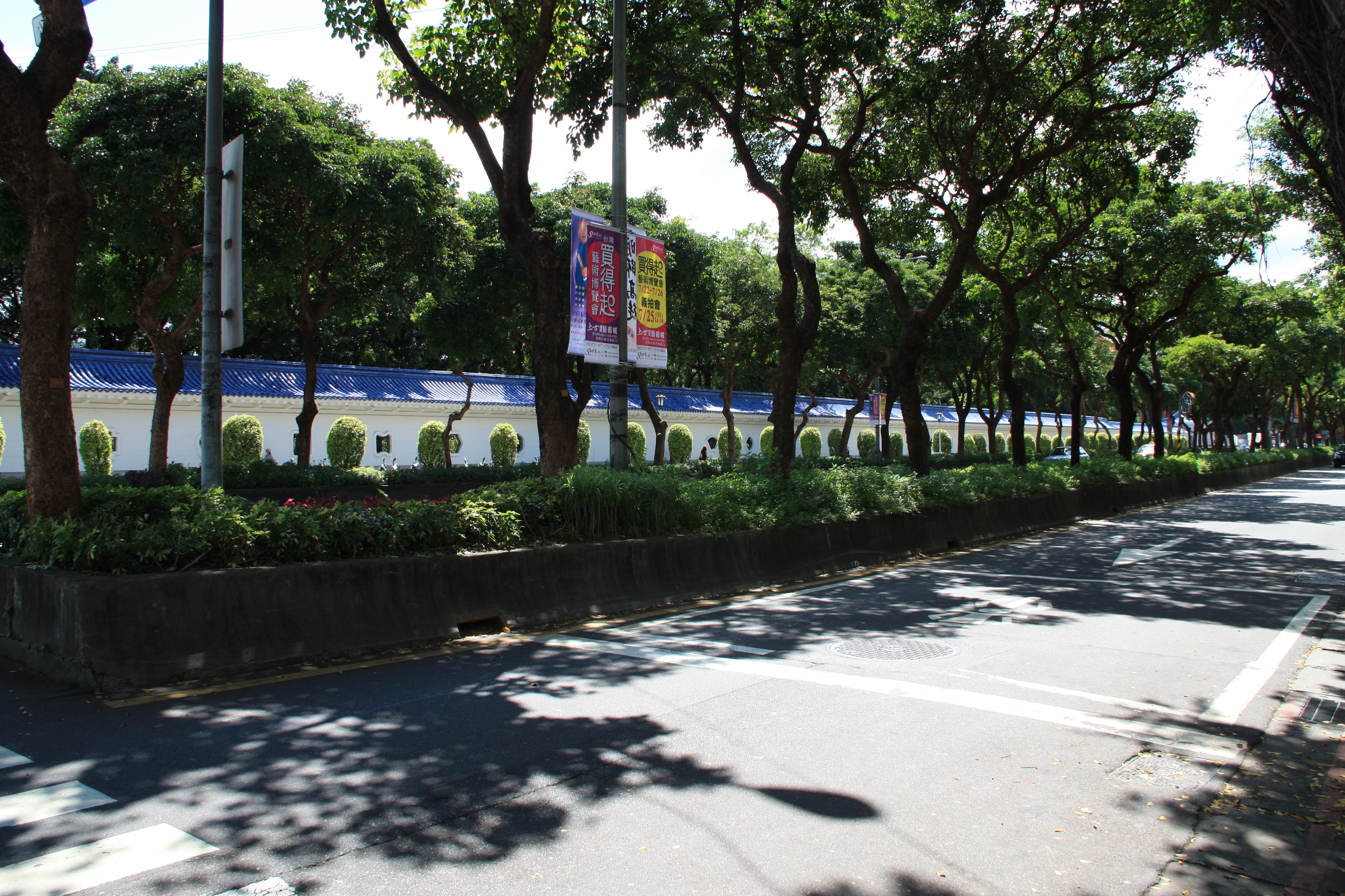 Táiběi Zhōngzhèng District XìnYì Rd - ShàoXìng South St intersection View to WSW Wall around the Chiang Kai-shek Park